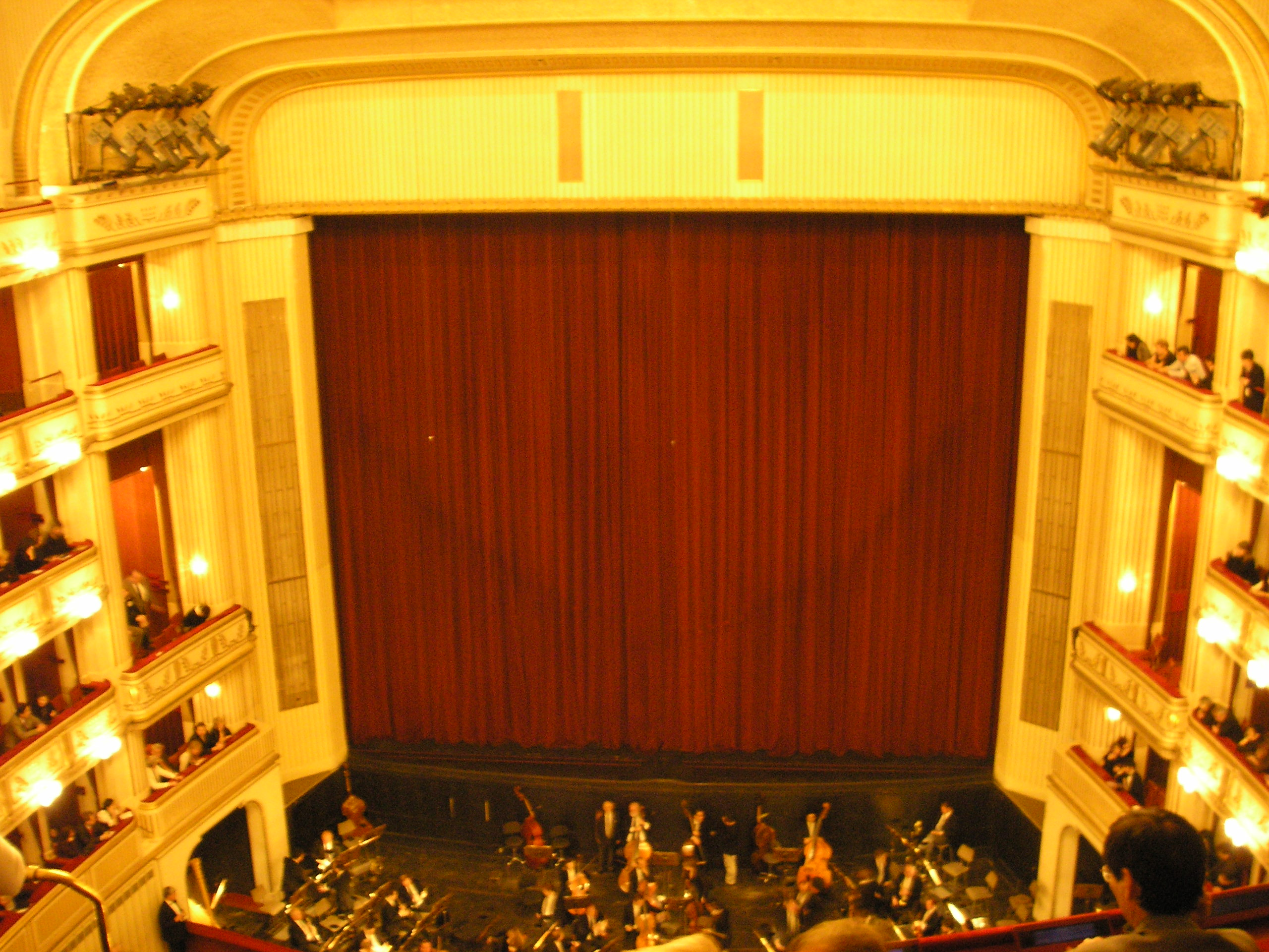 Description: View from the balcony on to the Vienna State Opera. Blick vom Balkon auf die Bühne der Wiener Staatsoper. Source: Self-made, I release it into the public domain.